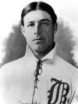 Jimmy Collins – 1945 Baseball Hall of Fame inductee